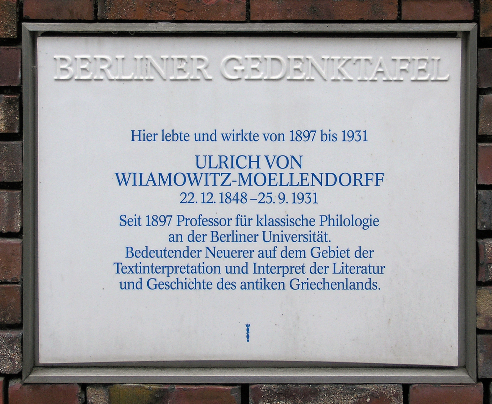 Berlin memorial plaque, Ulrich von Wilamowitz-Moellendorff, Eichenallee 12, Berlin-Westend, Germany Koordinate:52°30′56″N 13°16′24″E / 52.51556°N 13.27333°E